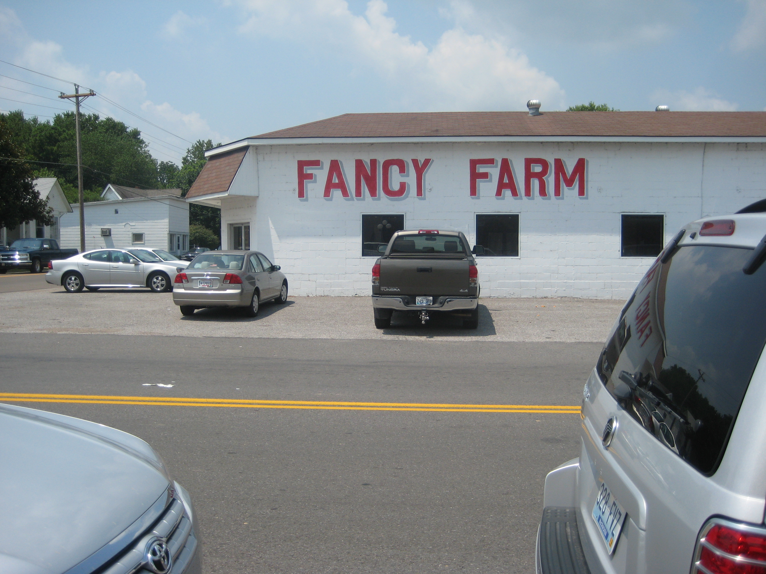 Kentucky Route 339, northwest corner with Kentucky Route 80, Fancy Farm, Kentucky. The building was demolished sometime afterwards, between September 2010 and February 2012. Photography appears to be pointing west-by-northwest from St. Jerome's Catholic Church across KY 339.